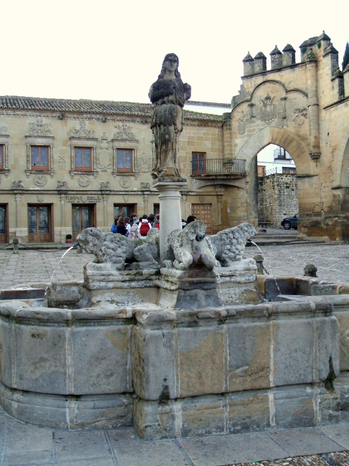 Fuente de los Leones en la Plaza del Pópulo de Baeza (Jaén, Andalucía, España)